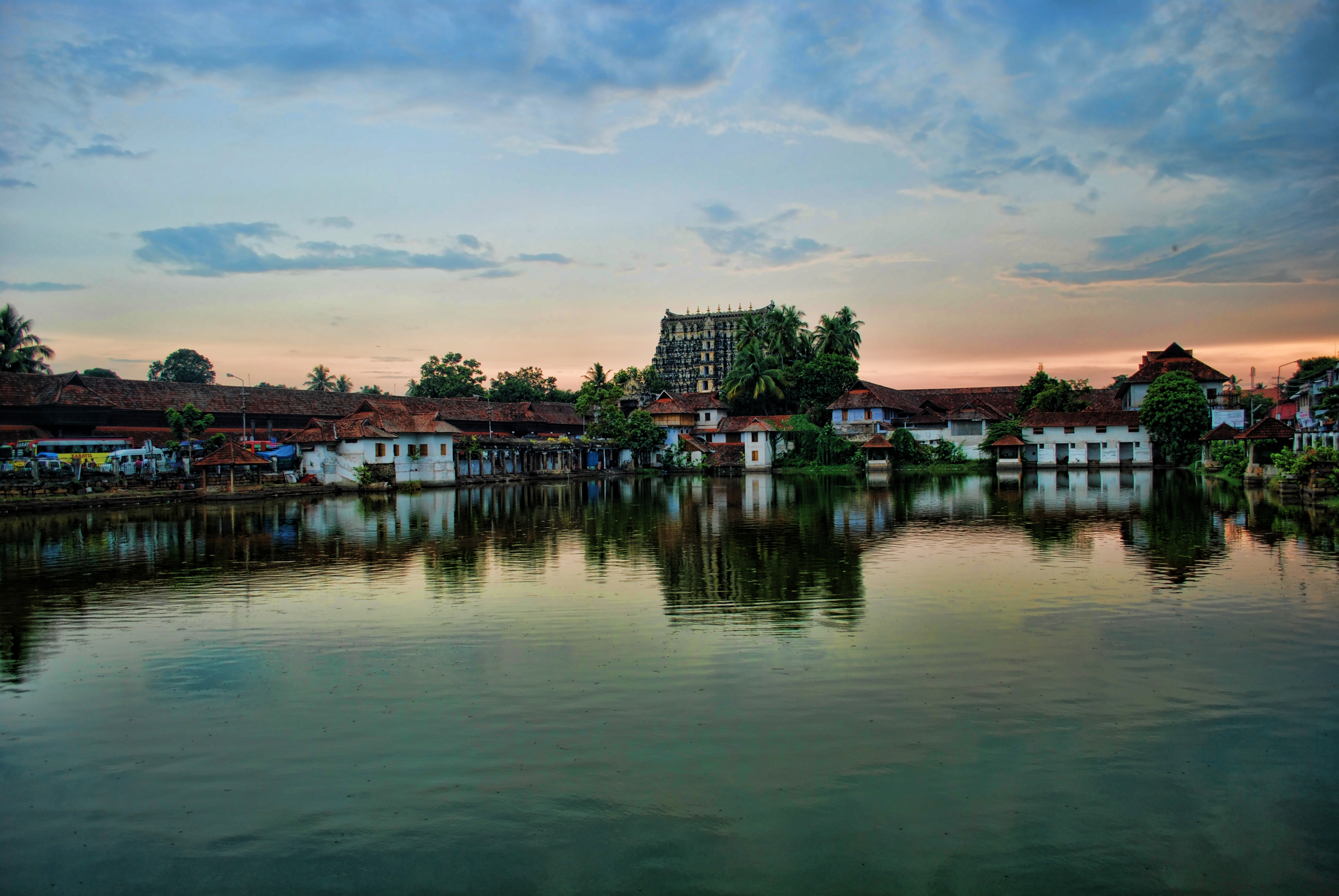 Trivandrum Sri Padmanabha Swamy Temple Complex